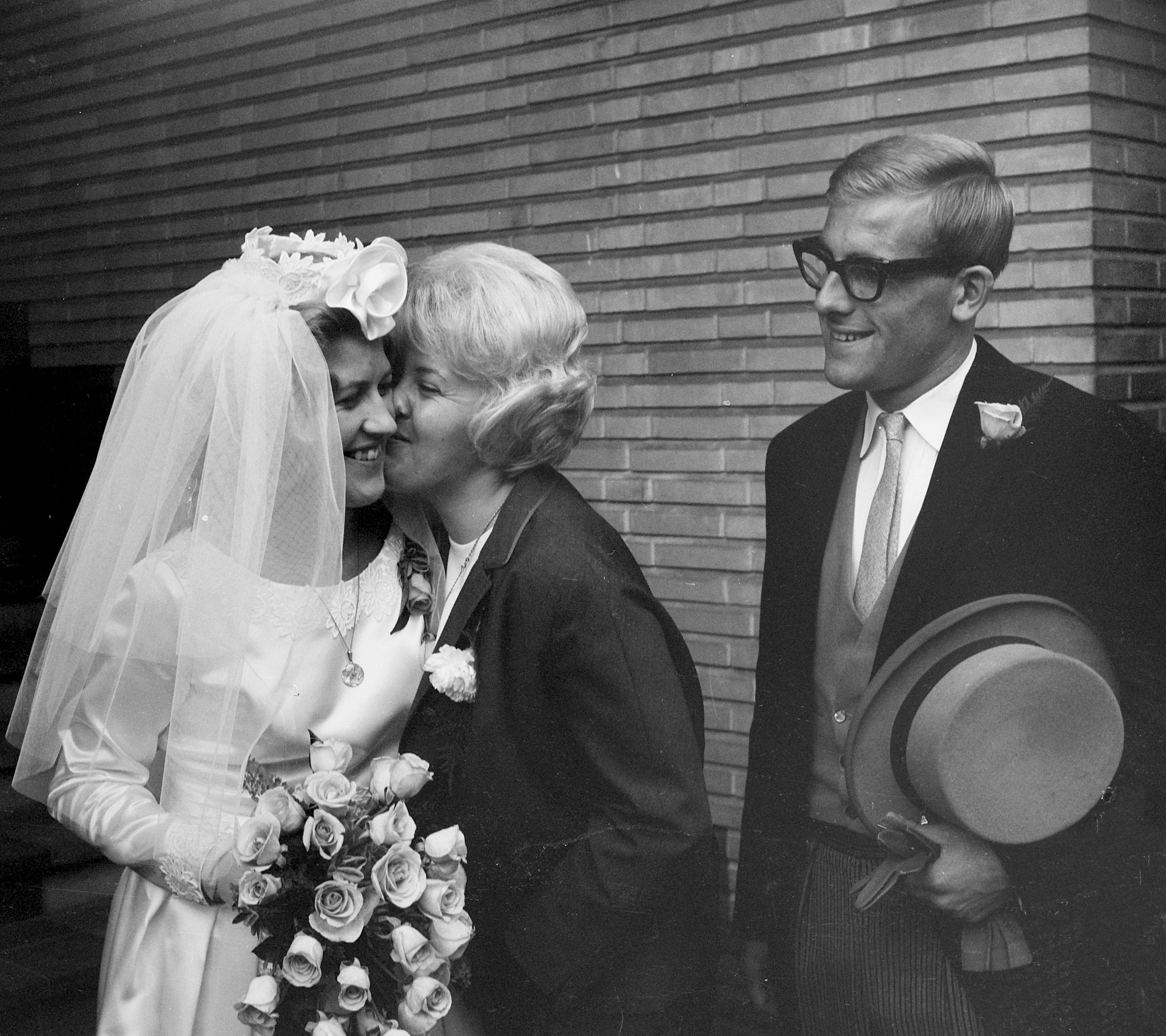 Zwemster Lenie de Nijs huwt met Harry Vriend. Atje Voorbij feliciteert de bruid